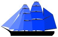 Hinted to 196 × 127. Best displayed as an integer multiple of those dimensions.